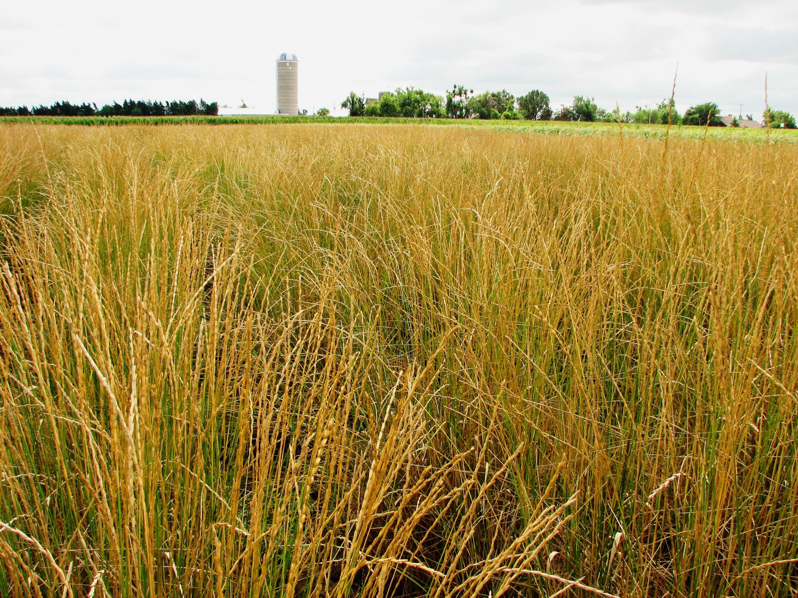 Field of ripening intermediate wheatgrass (Thinopyrum intermedium) at The Land Institute's research farm in Salina, Kansas.